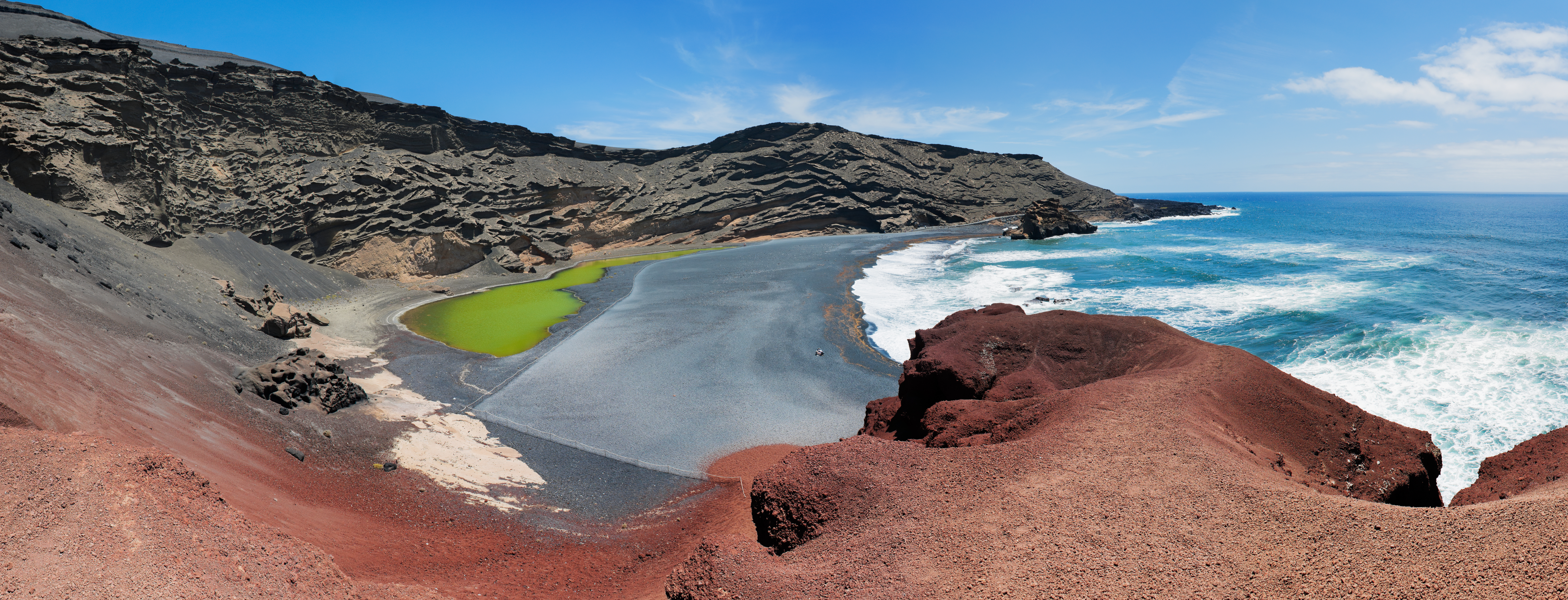 Tidal pool in the El Golfo crater, Lanzarote, Canary Islands.